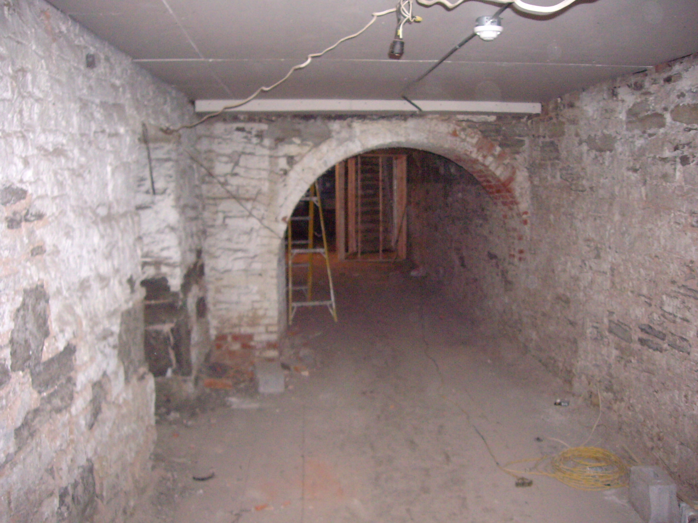 Basement pre-drywall